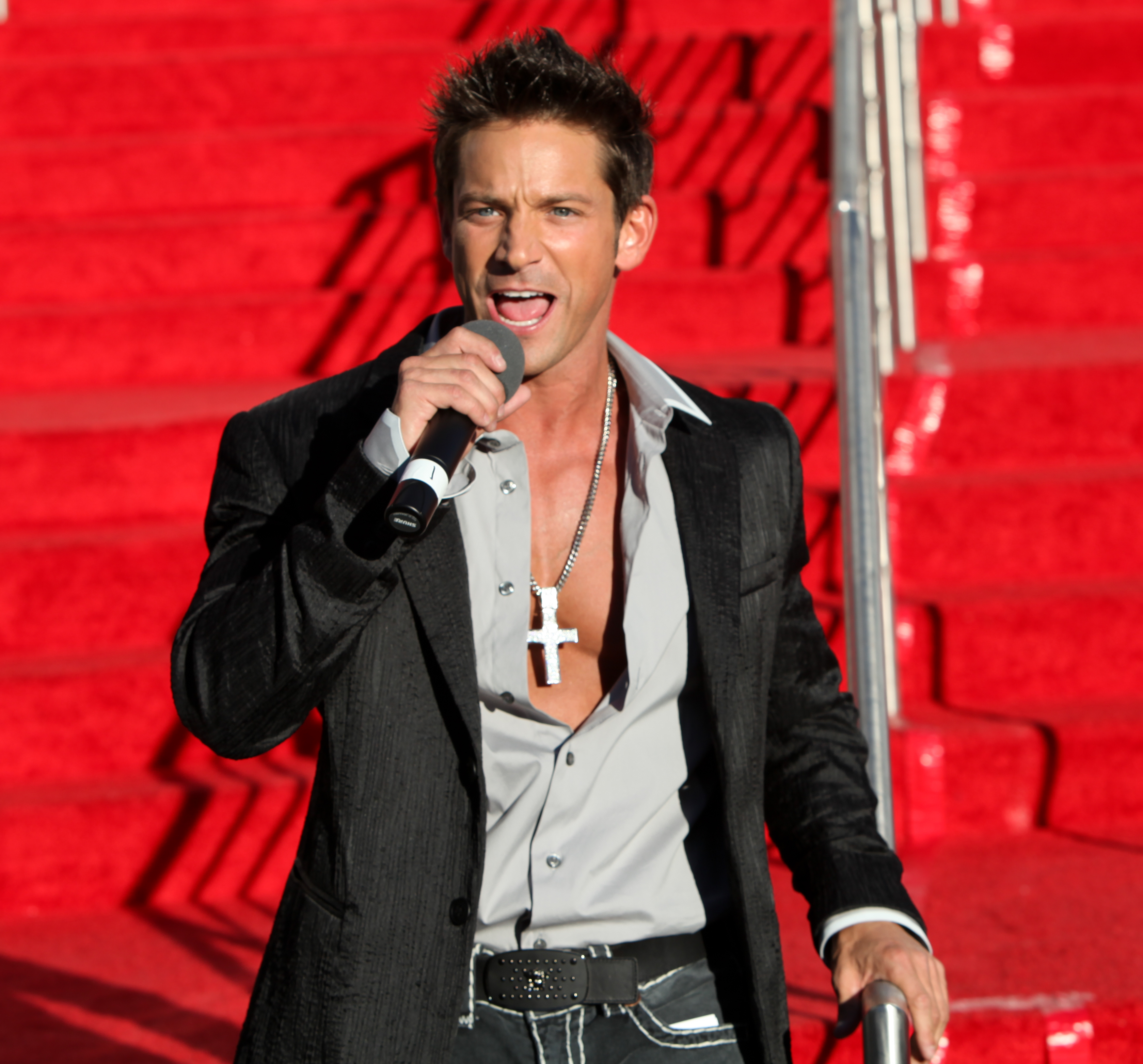 51 Contestants descend on Las Vegas, Nevada for the 60th Annual Miss USA Pageant. Former 98 degrees star and current Chippendale belts out a song for the opening of the 60th Annual Miss USA Pageant.